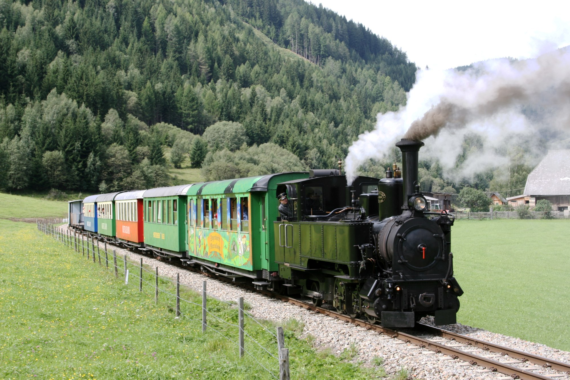 Special train on the Murtalbahn in Styria, consisting of engine No. 12 and carriages of the 1957 closed Salzkammergut-Lokalbahn